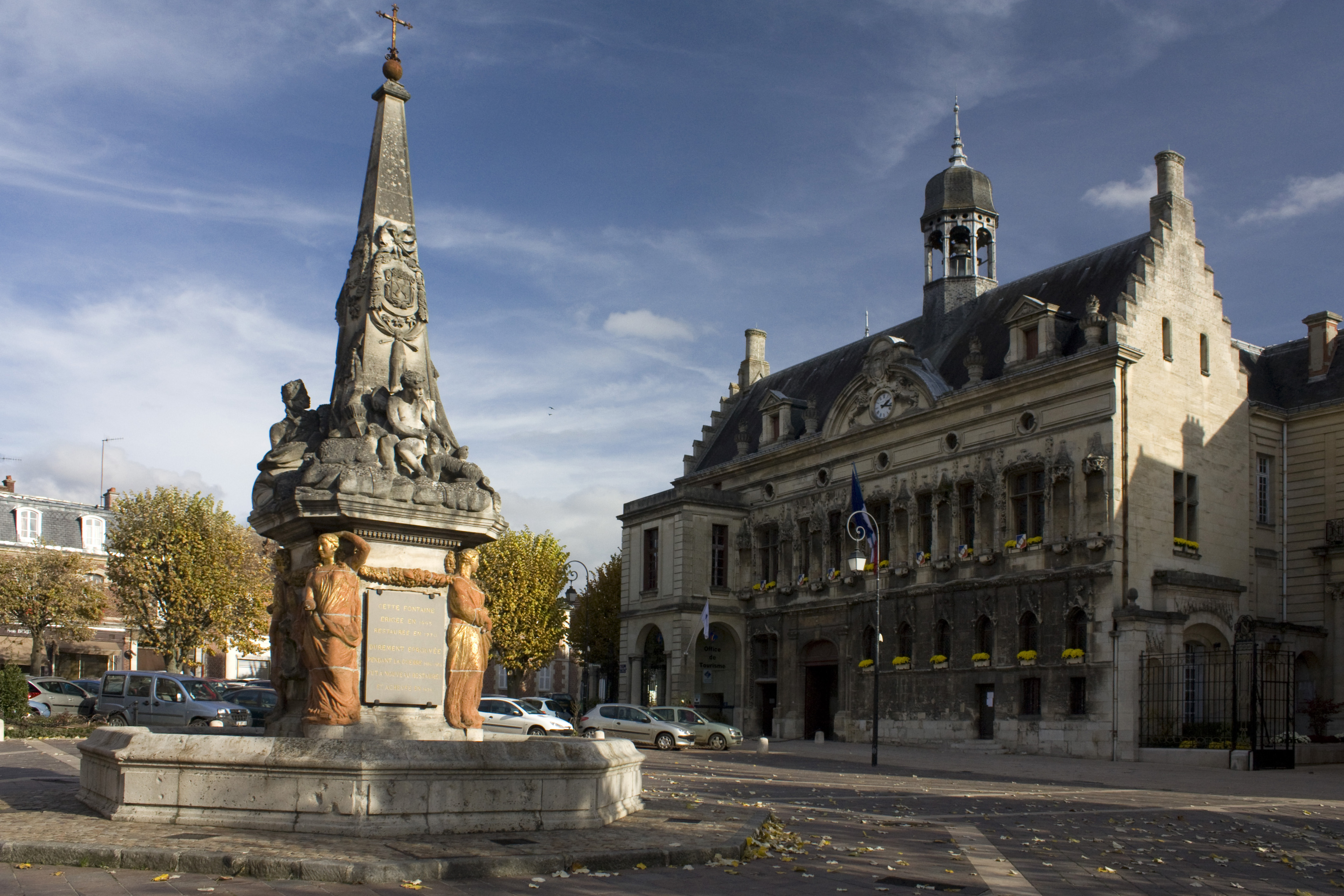 The Town Hall, repeatedly burned, ruined and restored, date from the 17th century for the oldest parts.